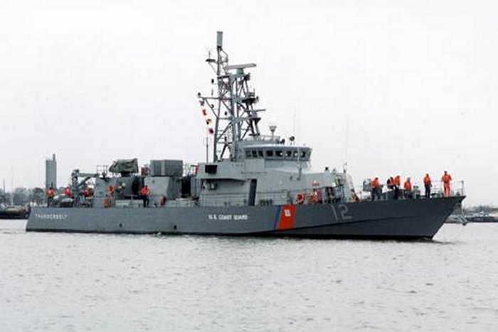 Seen here in both Coast Guard and Navy markings. U.S. Coast Guard photo by David Schuffholz